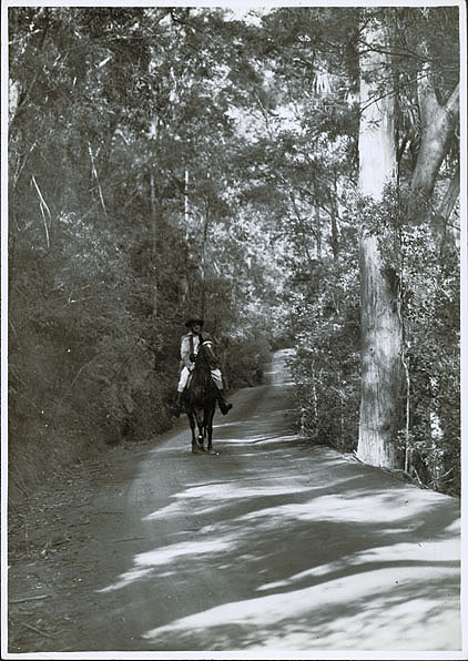 Title: Ranger on horseback on Lady Carrington Drive, Royal National Park (NSW) Dated: No date Digital ID: 10738_a023_a023000016 Rights: We'd love to hear from you if you use our photos/documents. Many other photos in our collection are available to view and browse on our website using Photo Investigator.